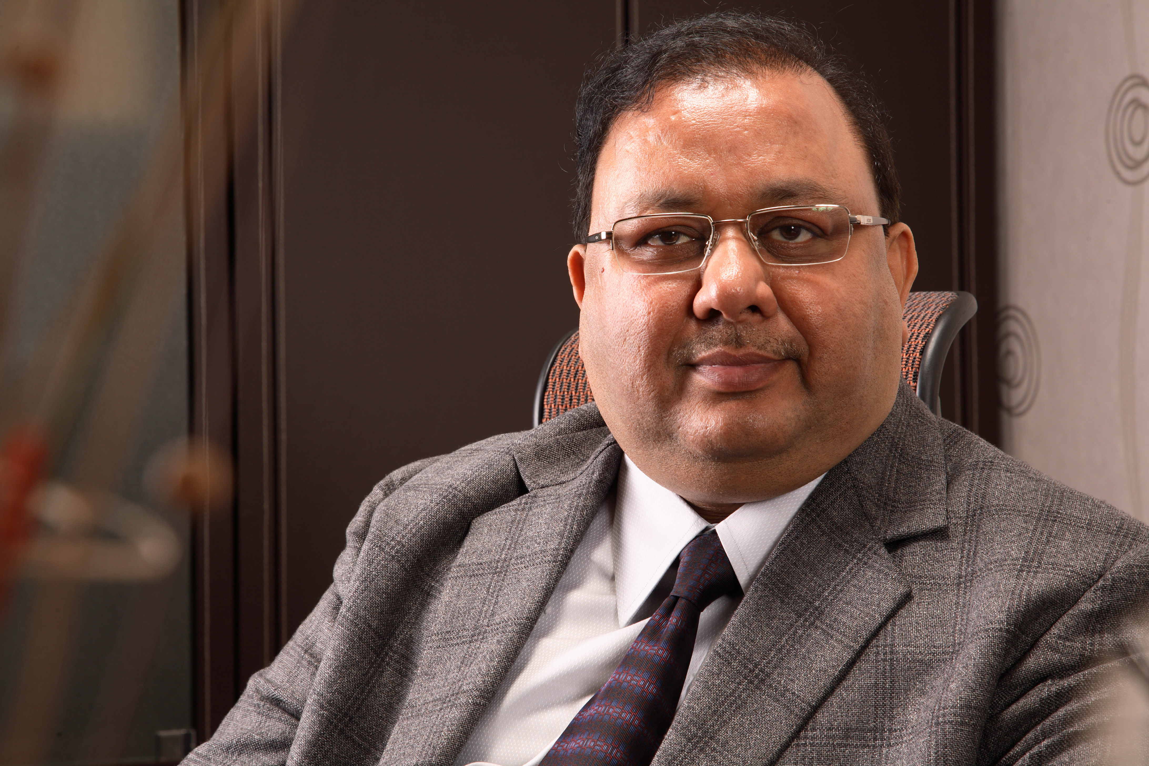 Mr. Ashok Todi is the leading industrialist of India. He is the chairman of Lux Industries Limited - the leading innerwear brand in the country.